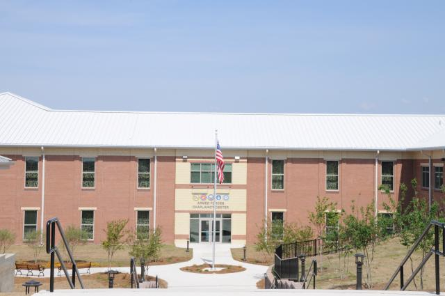 The Armed Forces Chaplaincy Center, Ft. Jackson, Columbia, SC. Dedicated May 6, 2010, its campus includes Army, Navy, and Air Force chaplain and chaplain assistant training classes and schools.